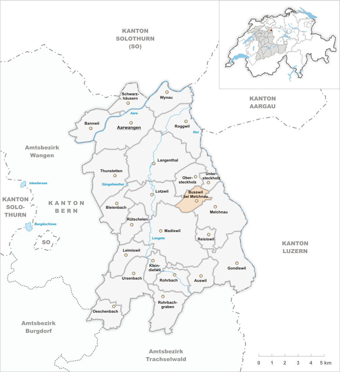 Municipality Busswil bei Melchnau